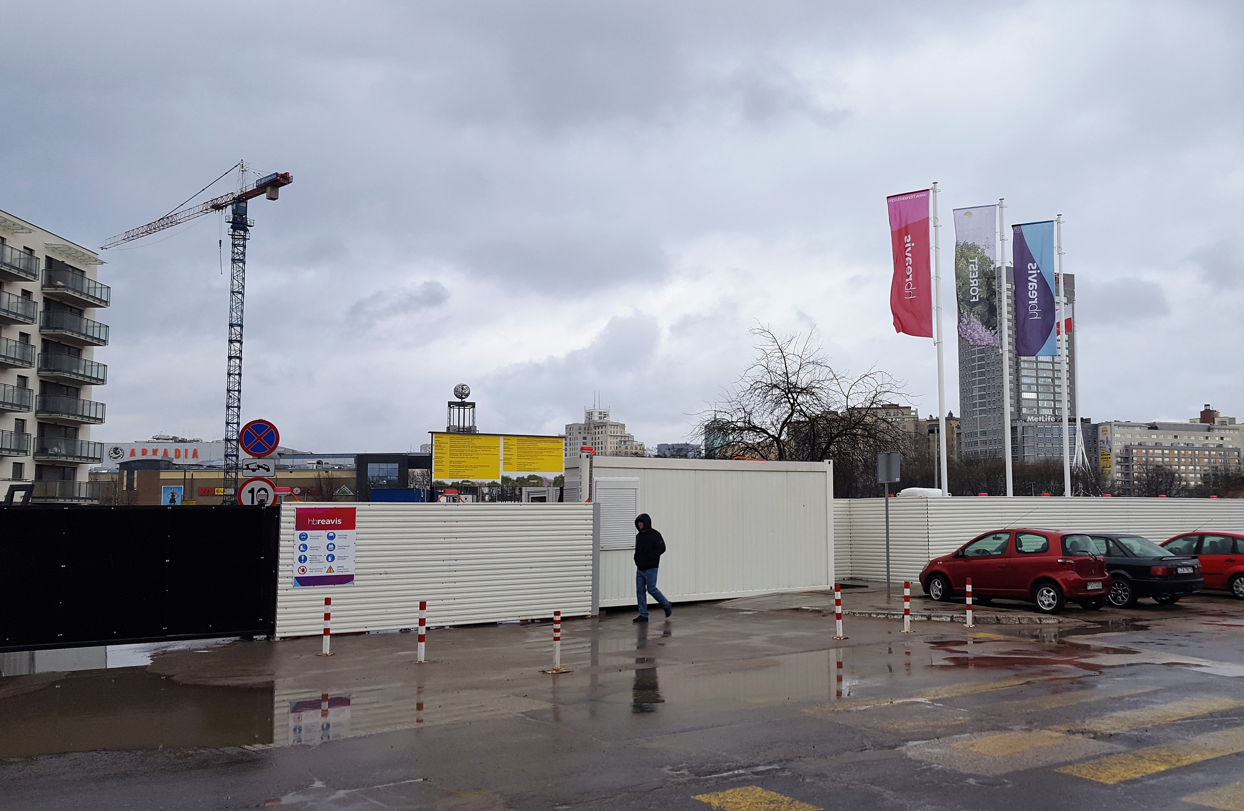 Forest Office Complex, Warsaw, under construction, Burakowska